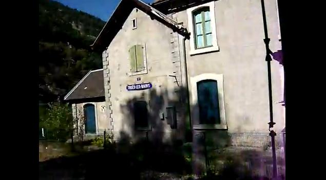 Train station of Thués-Les-Bains, in the Pirenées Orientales in France